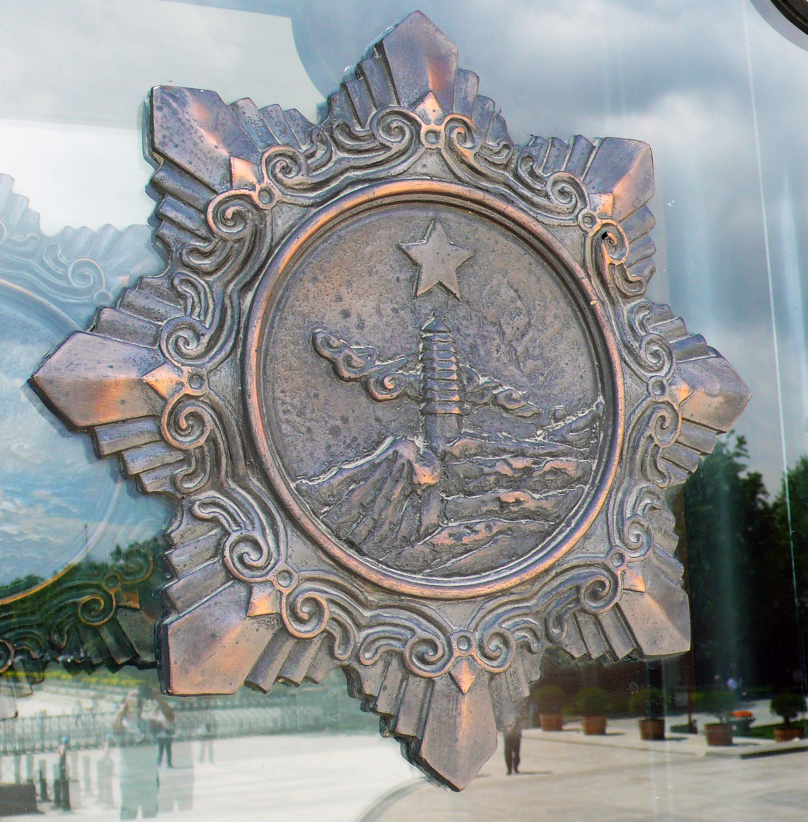 Order of Independence and Freedom carved on the door of Memorial Hall of the Chinese People's War of Resistance Against Japanese Aggression.